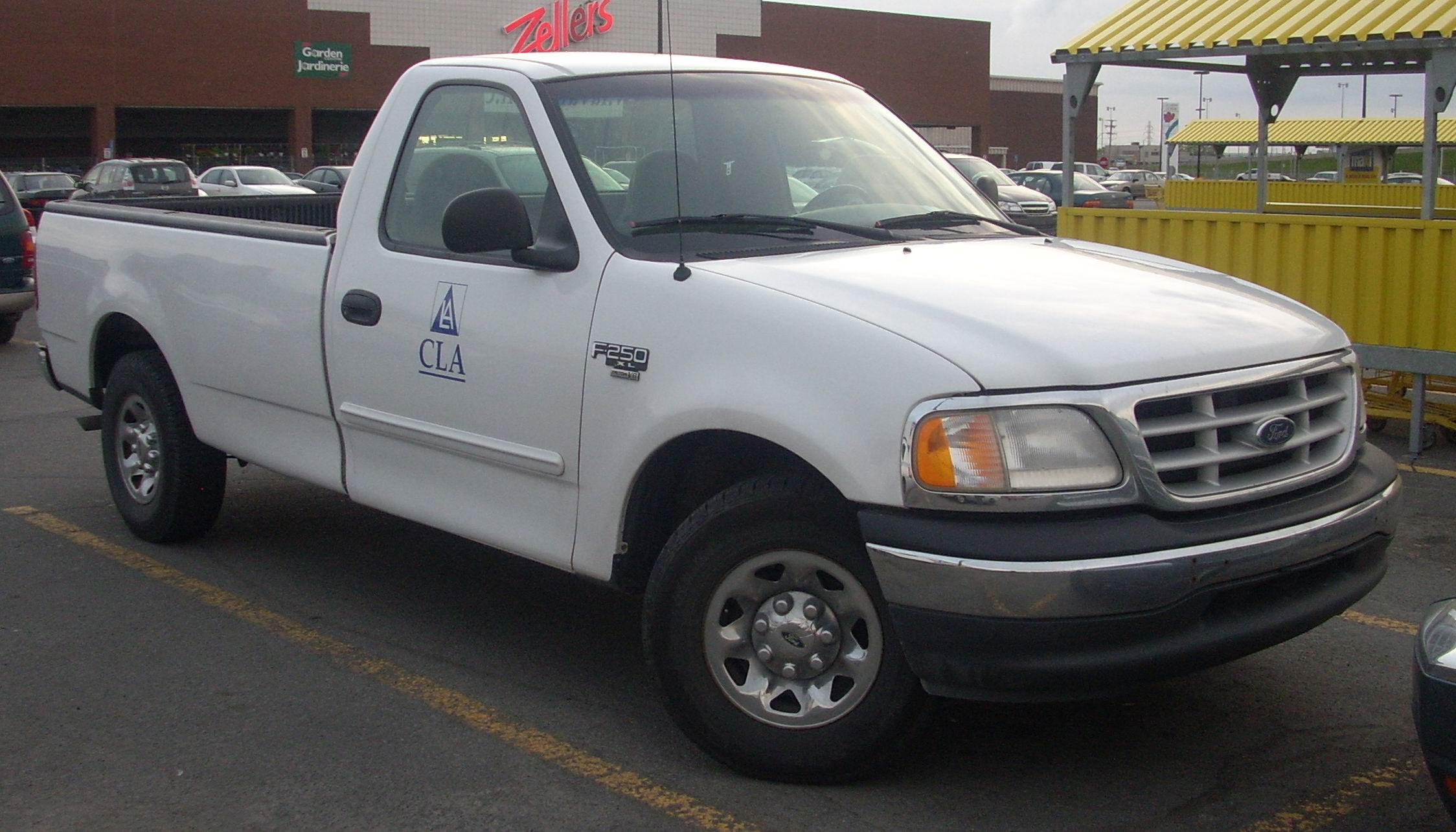 1997–1998 Ford F-250 photographed in Montreal, Quebec, Canada.